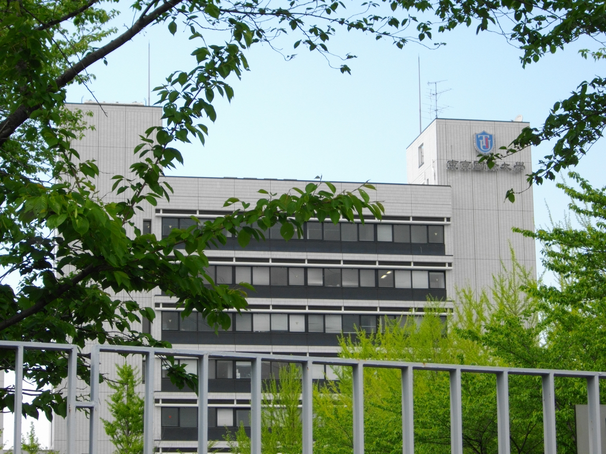 Tokyo International University 2nd Campus